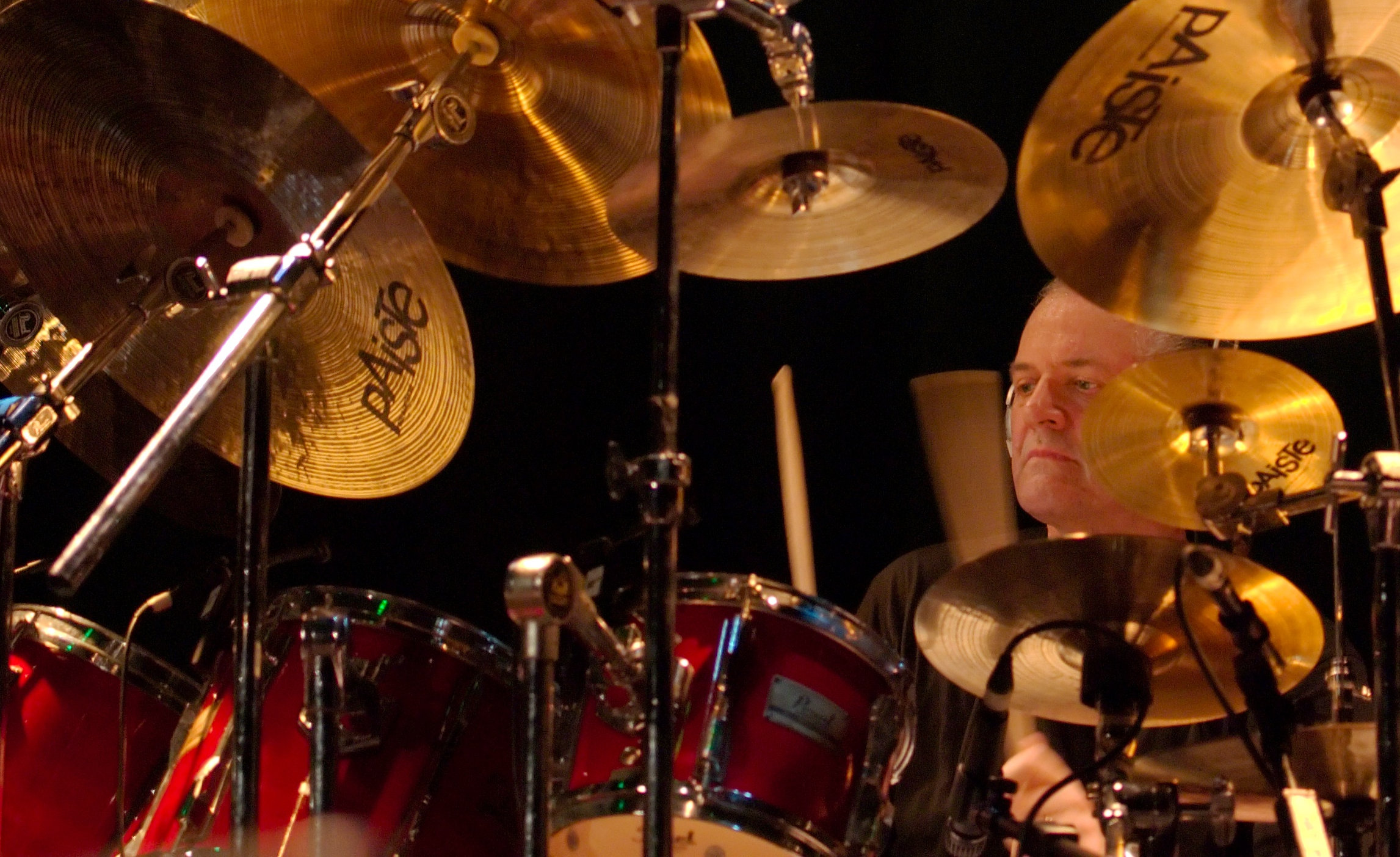 Jon Hiseman with Colosseum in Tollhaus/Karlsruhe/Germany, April 25th, 2007